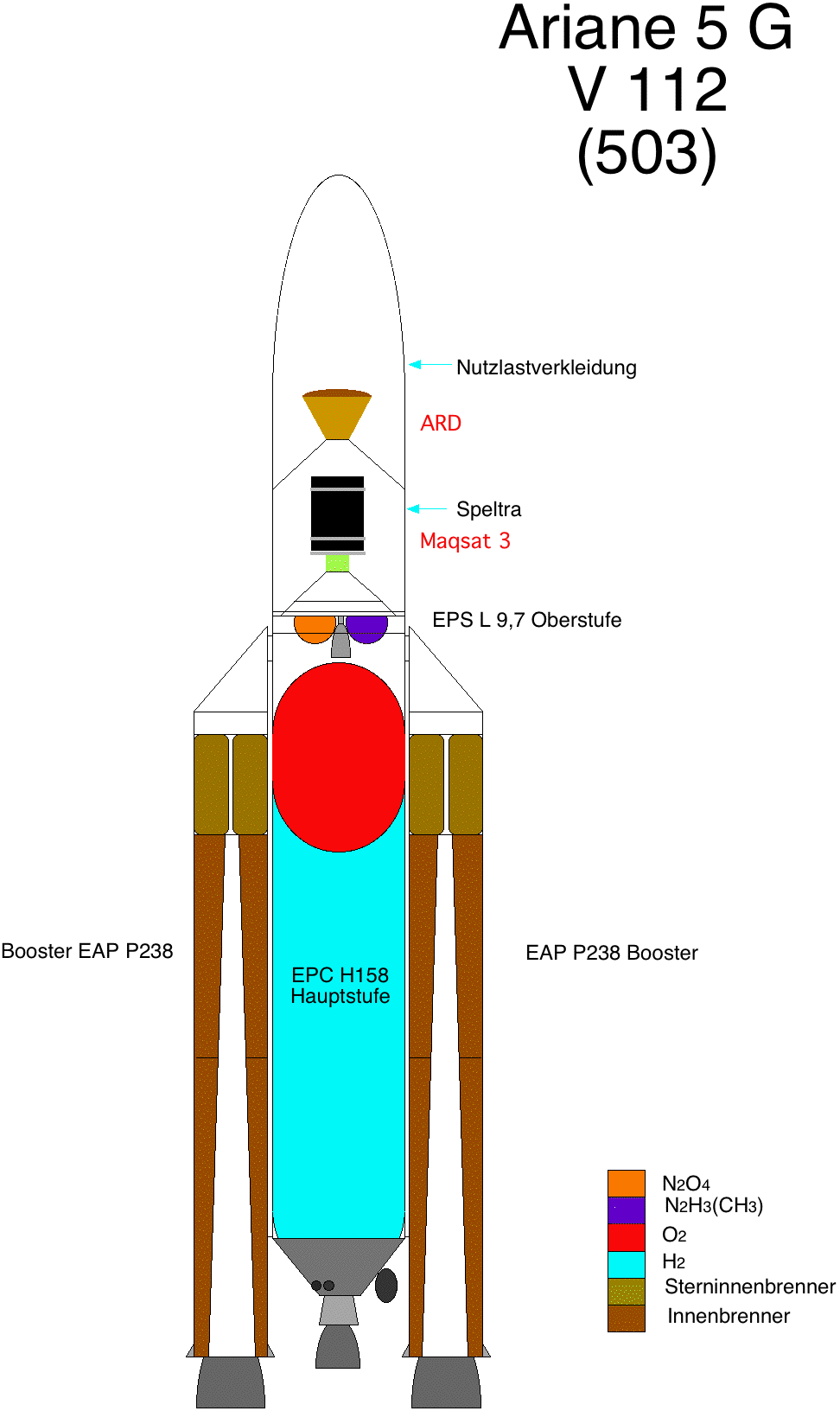 Cut drawing of the third Ariane 5G with the ARD (Atmospheric Reentry Demonstrator) and Maqsat 3 on board. Flight V 112, Serial number of the rocket: 503